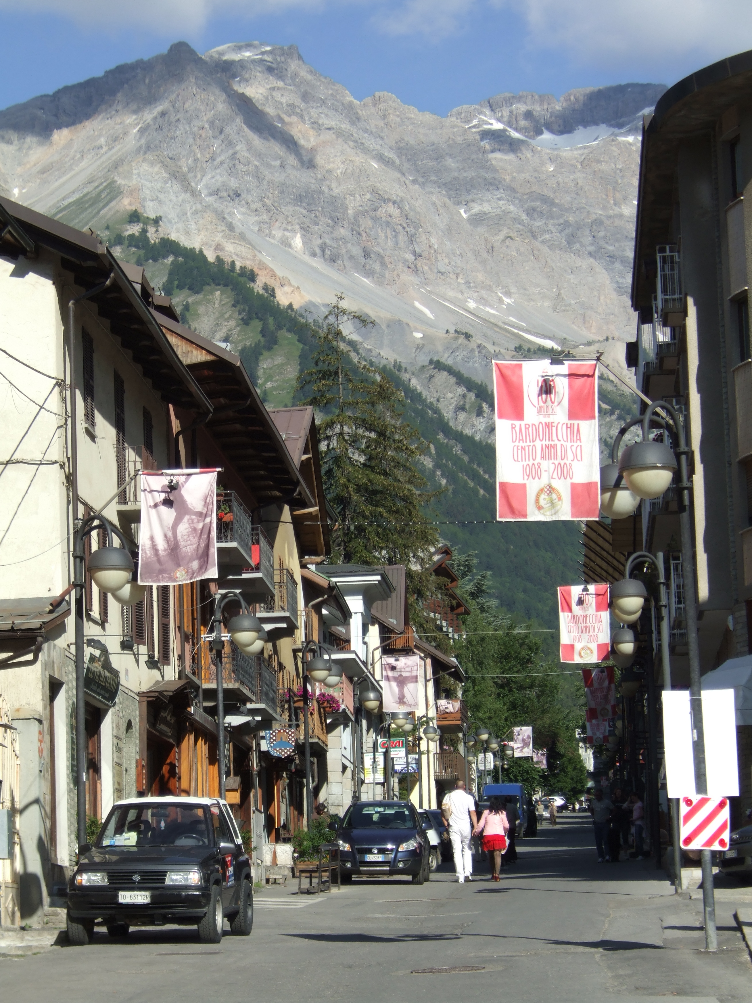 Medail Street from bottom in Bardonecchia (Italy)